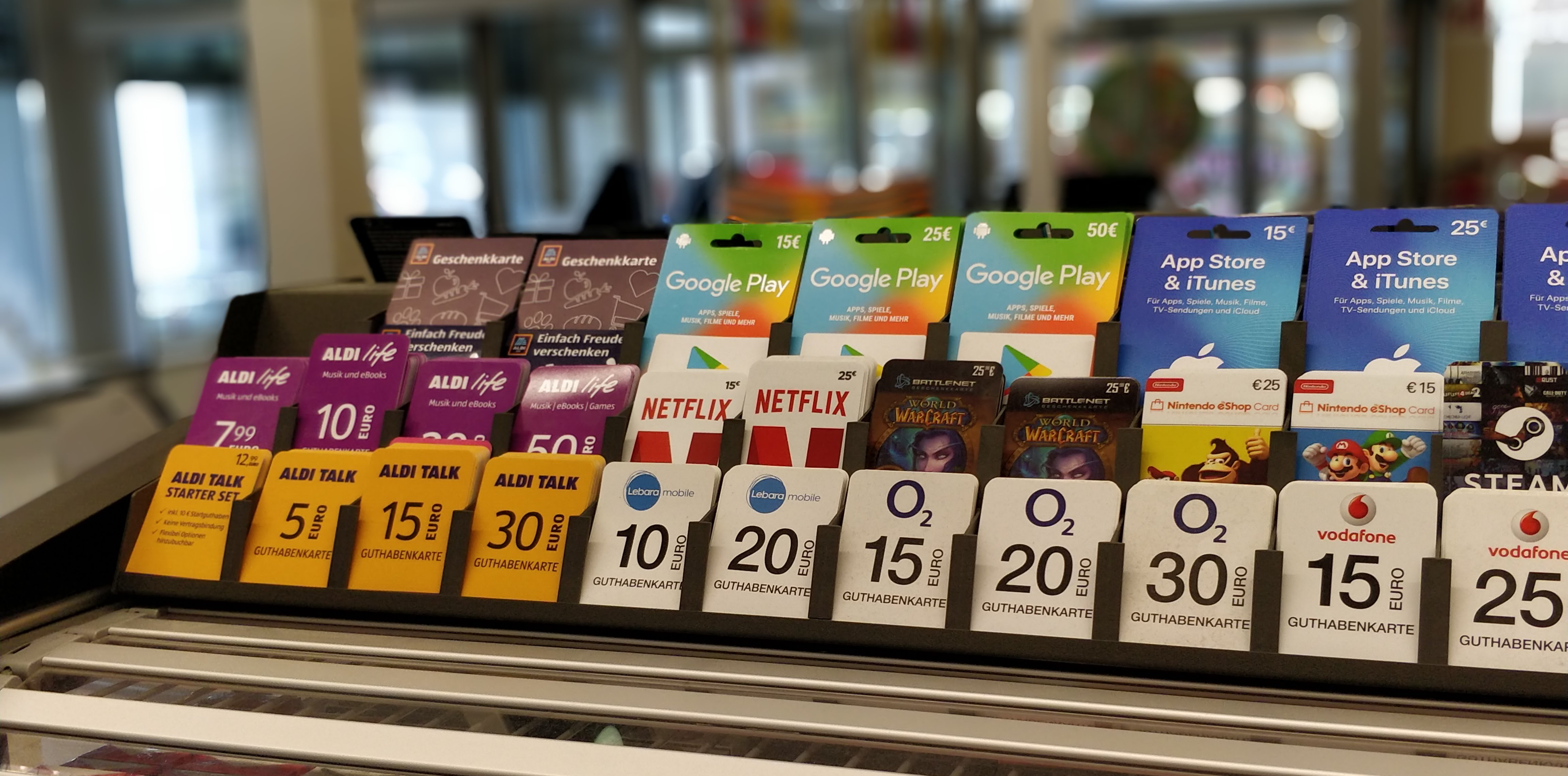 Prepaid service cards in a German ALDI store.